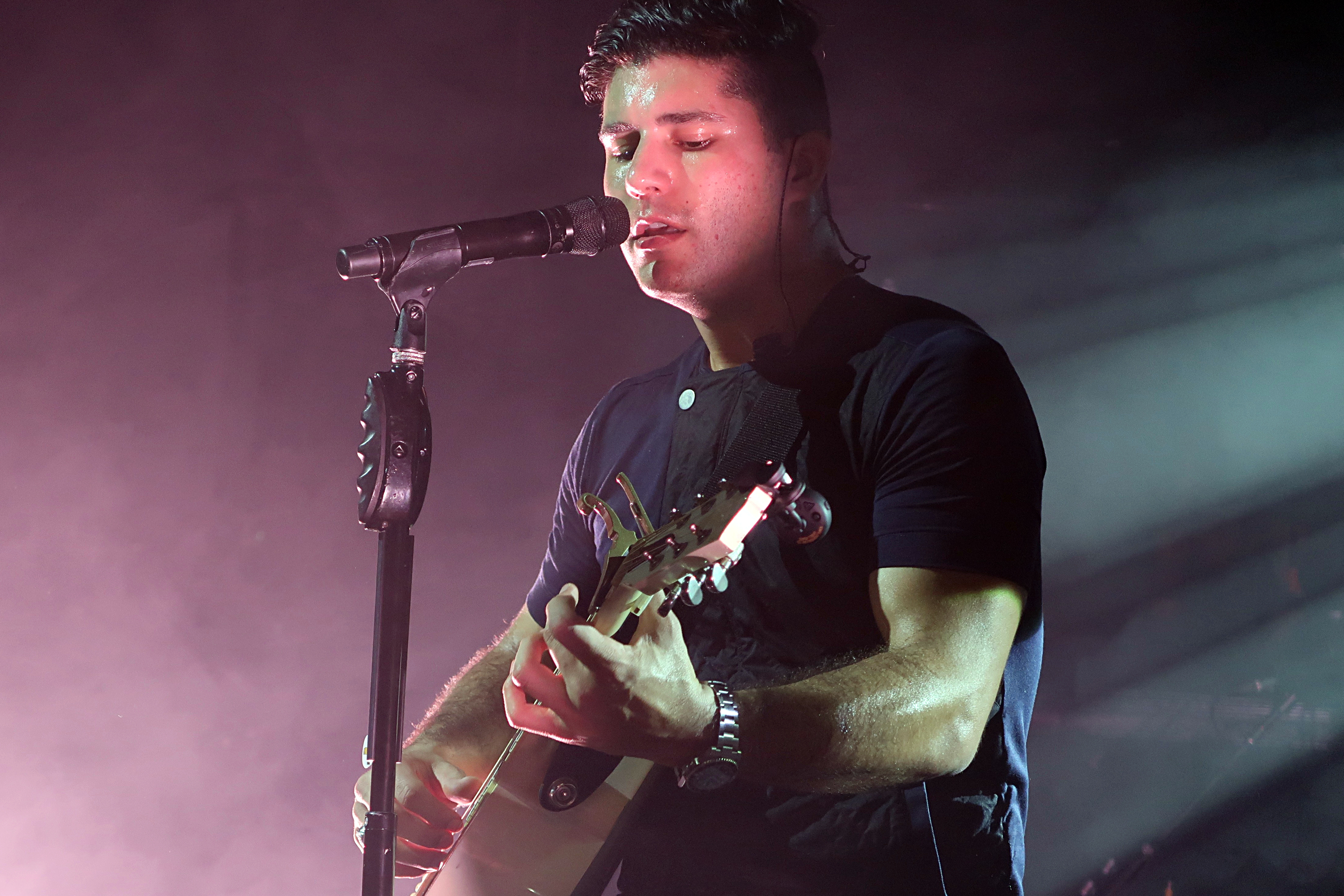 Dan Smyers of Dan + Shay in concert at the New Daisy Theatre in Memphis, TN, February 2017